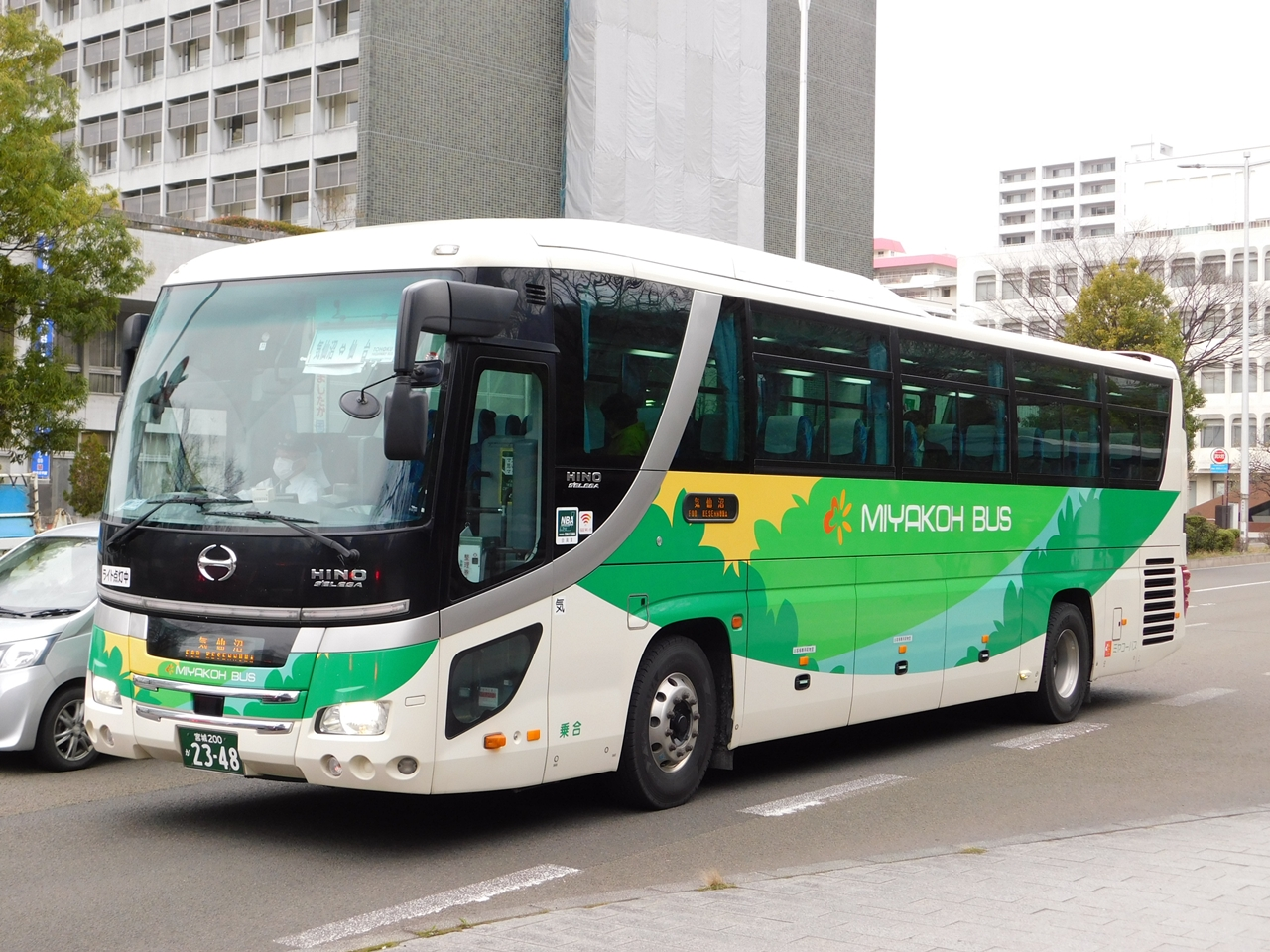 Miyakoh bus Hino S'elega (QRG-RU1ASCA)on highwaybus "Sendai-Minamisanriku,Kesennuma"